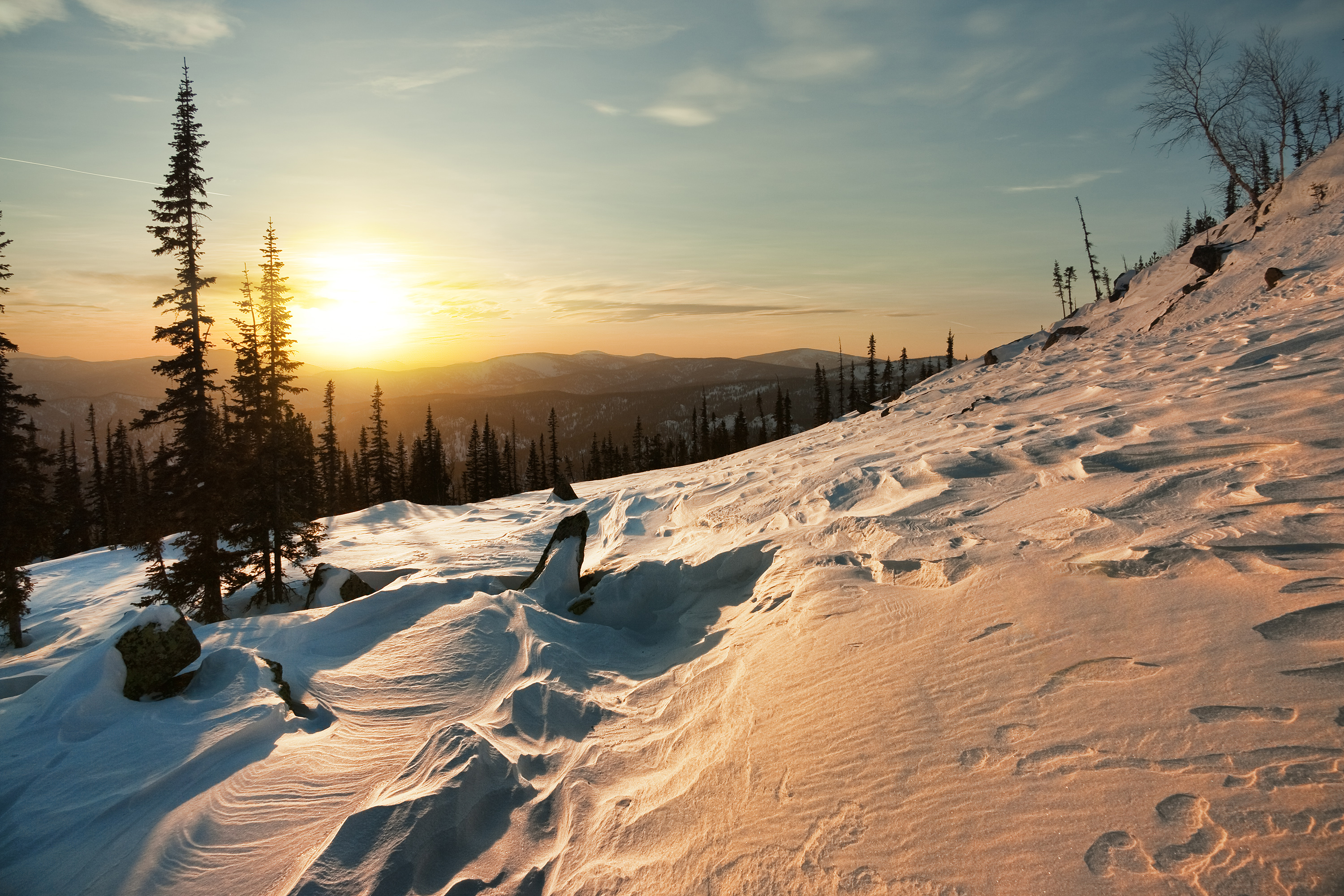 Sunset in Kuznetsk Alatau, South Siberia.